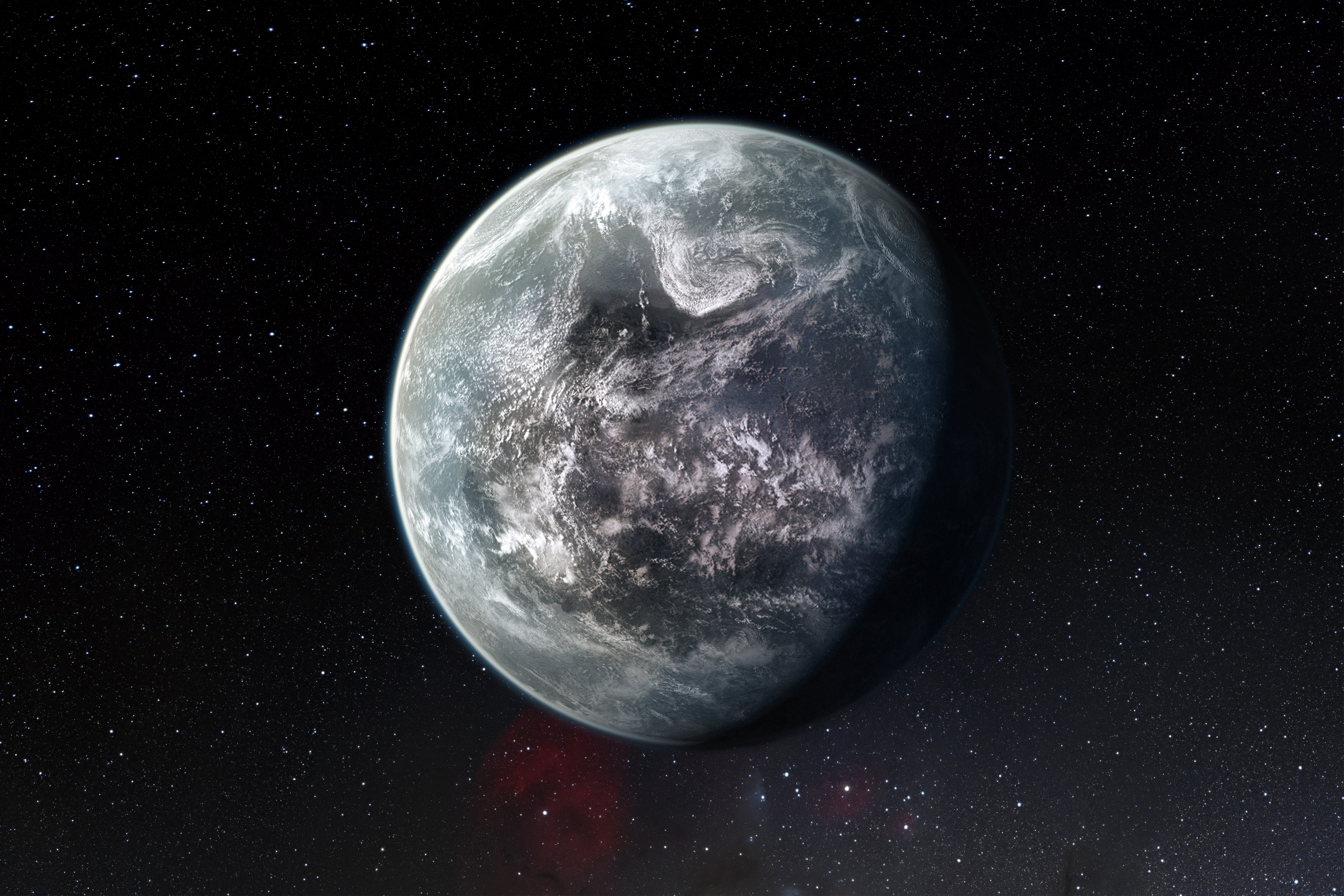 This artist’s impression shows the planet orbiting the Sun-like star HD 85512 in the southern constellation of Vela (The Sail). This planet is one of sixteen super-Earths discovered by the HARPS instrument on the 3.6-metre telescope at ESO’s La Silla Observatory. This planet is about 3.6 times as massive as the Earth and lies at the edge of the habitable zone around the star, where liquid water, and perhaps even life, could potentially exist.